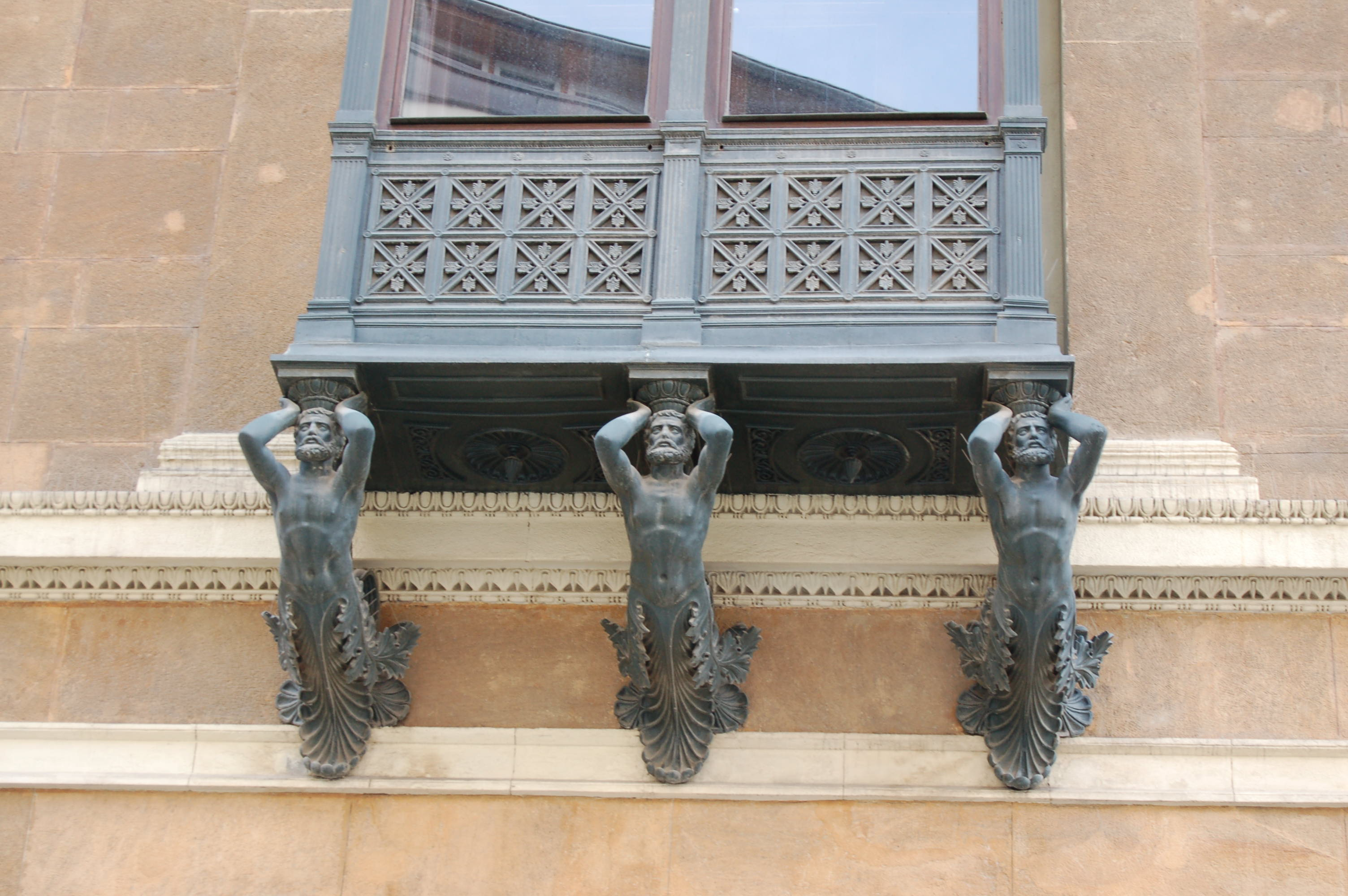 Buildings in the center of the Czech city Brno.